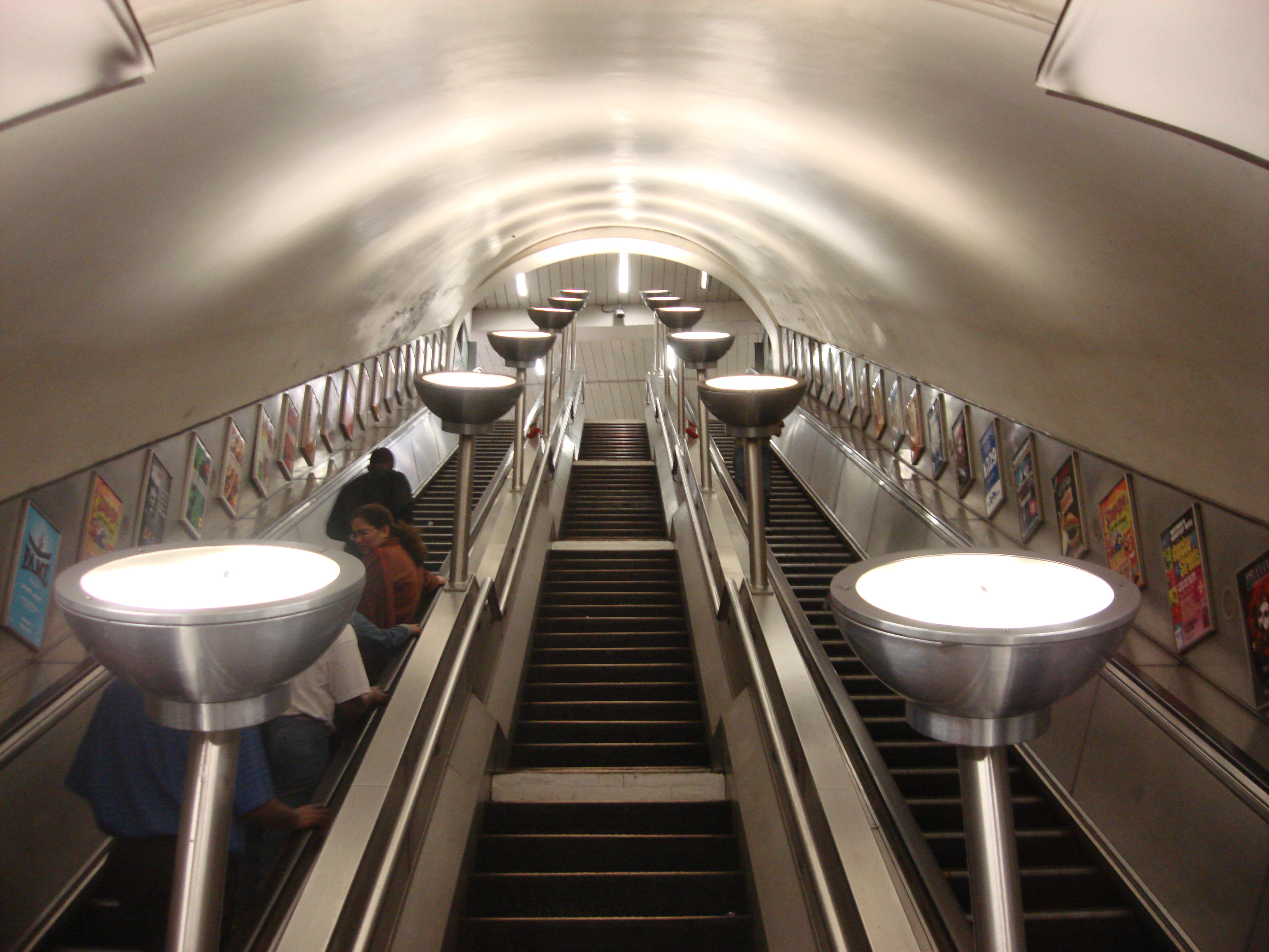 The escalators at Tooting Bec